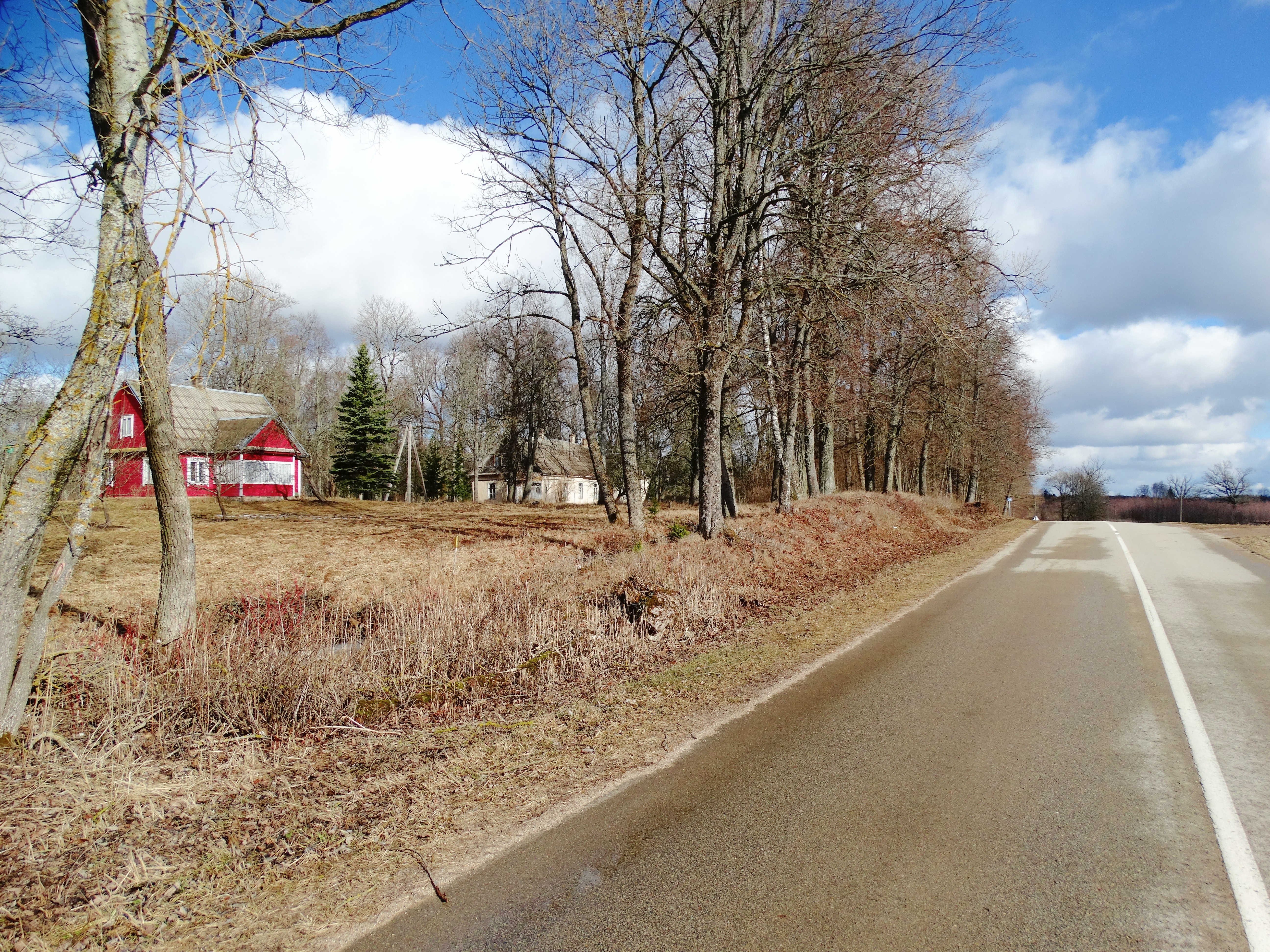 Mukuliai, Zarasai district, Lithuania